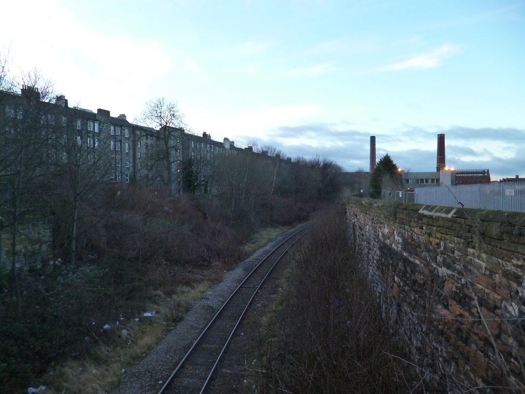 Site of Leith Walk Station which closed in 1930. Taken from Leith Walk.